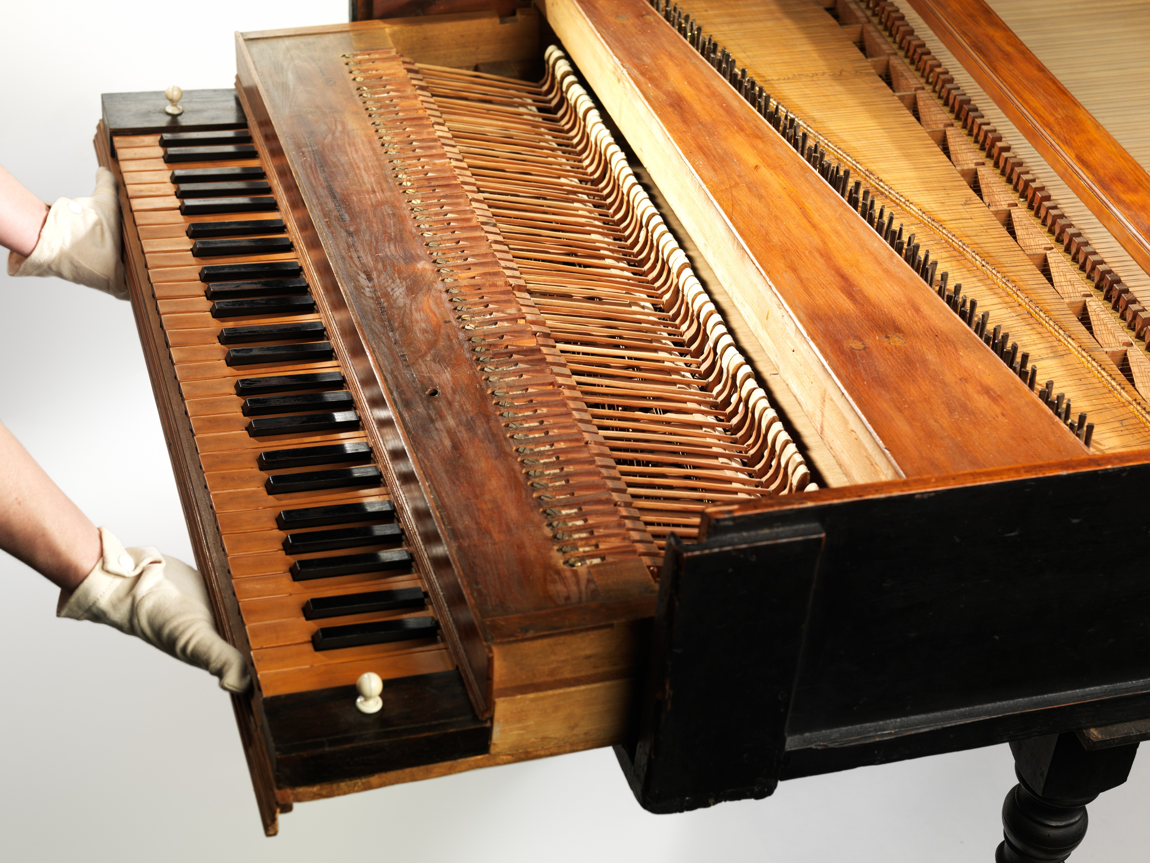 Italian (Florence); Grand Piano; Chordophone-Zither-struck-piano